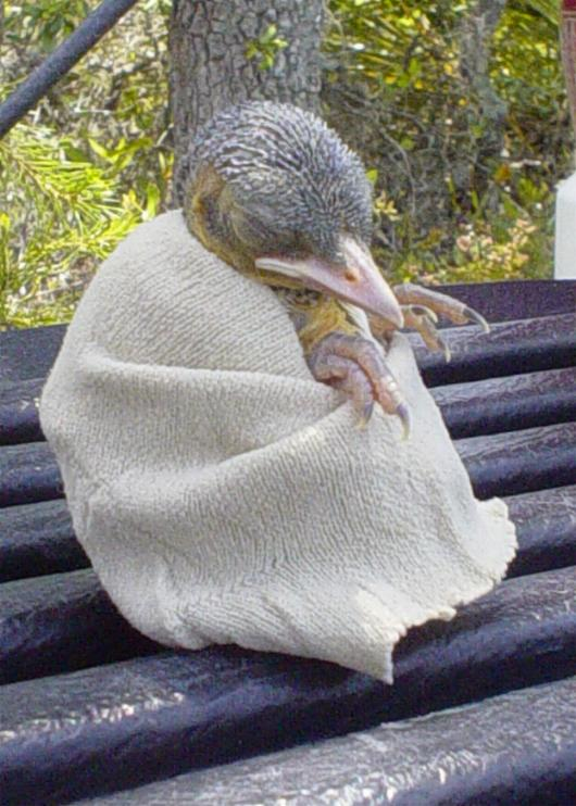 Sent to me from my brother, who got it from somebody in the FWC. It's a Florida Scrub Jay that was raised in captivity. Doesn't he (she?) look like Yoda? Original Message----- From: Birdbrains - Florida Birds/Natural History Sent: Friday, 15 April 2005 8:58 PM I banded the first brood of Florida Scrub-Jay nestlings at Lake Wales Ridge State Forest (southeastern Polk County) this past Wednesday. One of the nestlings didn't want to come out of the weighing bag (aka a trimmed panty hose), so I had to "peel" the bag away from it. Suddenly the jay looked very much like a well-known, very wise ("Wars not make one great"), and much loved old ... bird (?). In anticipation of the final film in the Star Wars saga, I thought I'd share this pic, which was taken by Jennifer Benson. Best regards, Bill